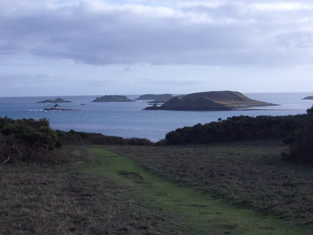 Great Ganilly and Great Innisvouls Great Ganilly and Great Innisvouls, Eastern Isles, Isles of Scilly